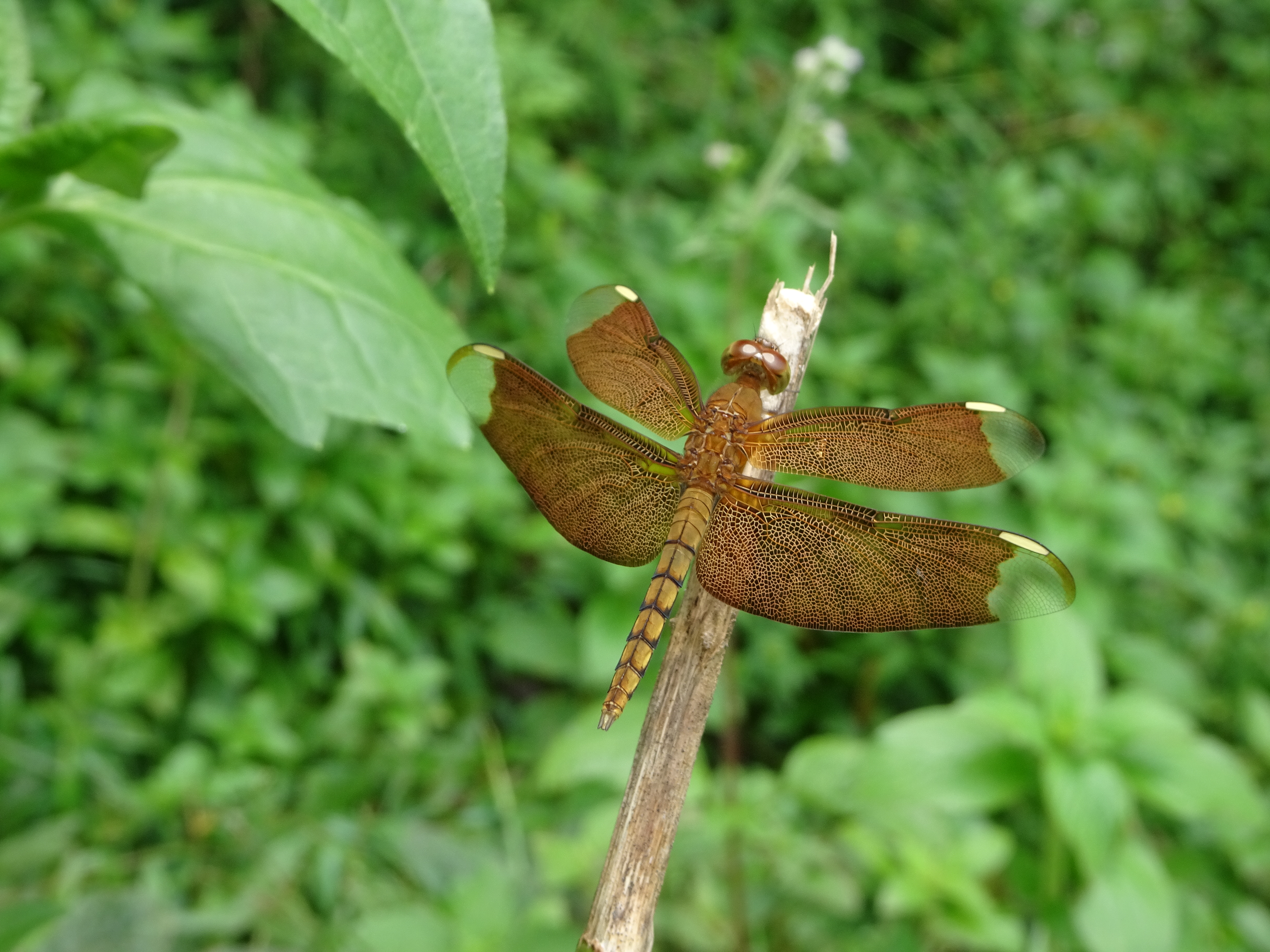 Female Neurothemis fulvia aka the Fulvous Forest Skimmer taken at Bhorletar, Lamjung